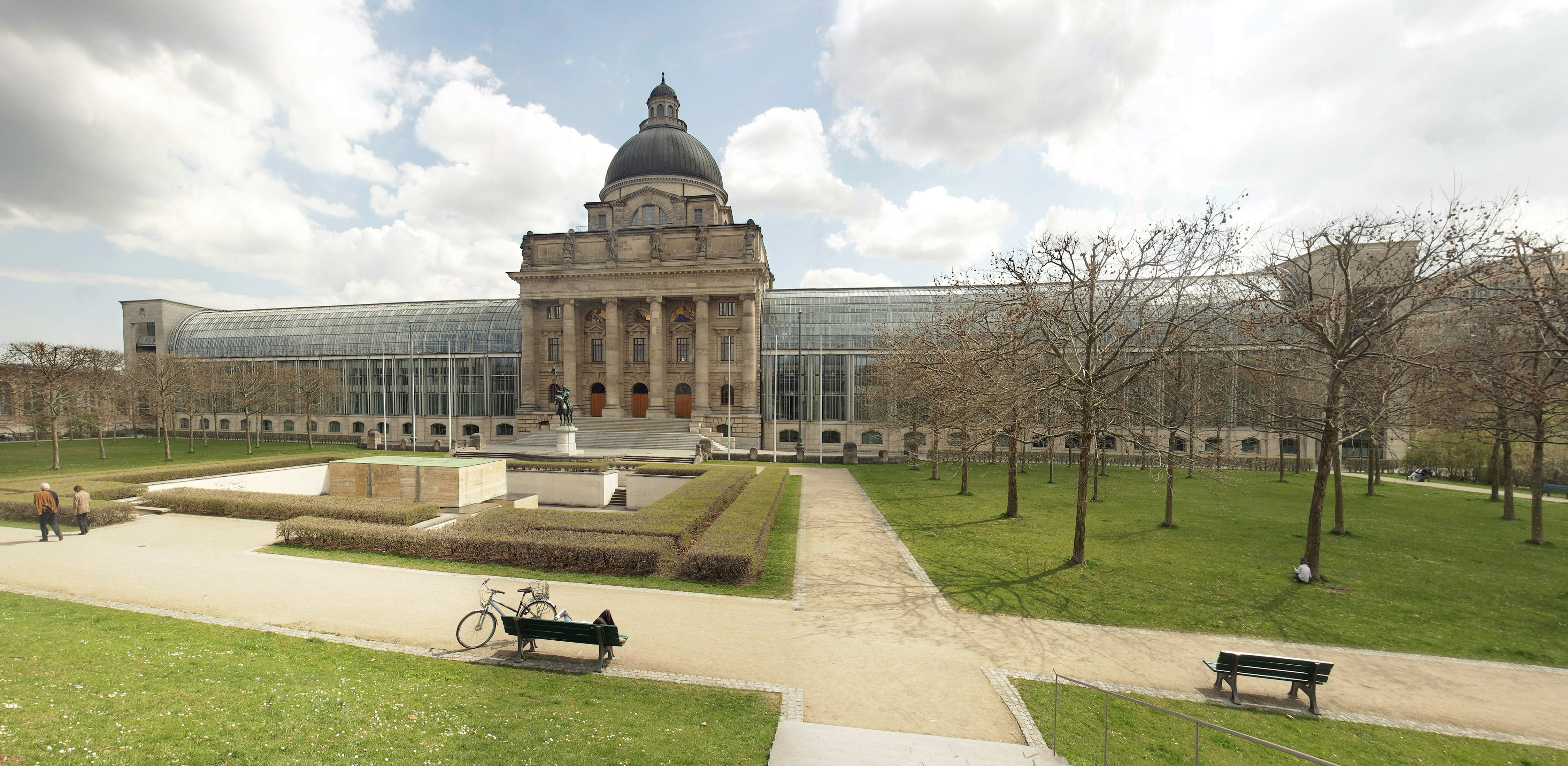 Bavarian state chancellery, minister president's office, Munich Technical information: A 4 x 1 segment panorama. Taken in portrait format with a Canon 40D and 17-55mm f/2.8L lens. Exif: 1/200, ISO 200, 17mm, f/11